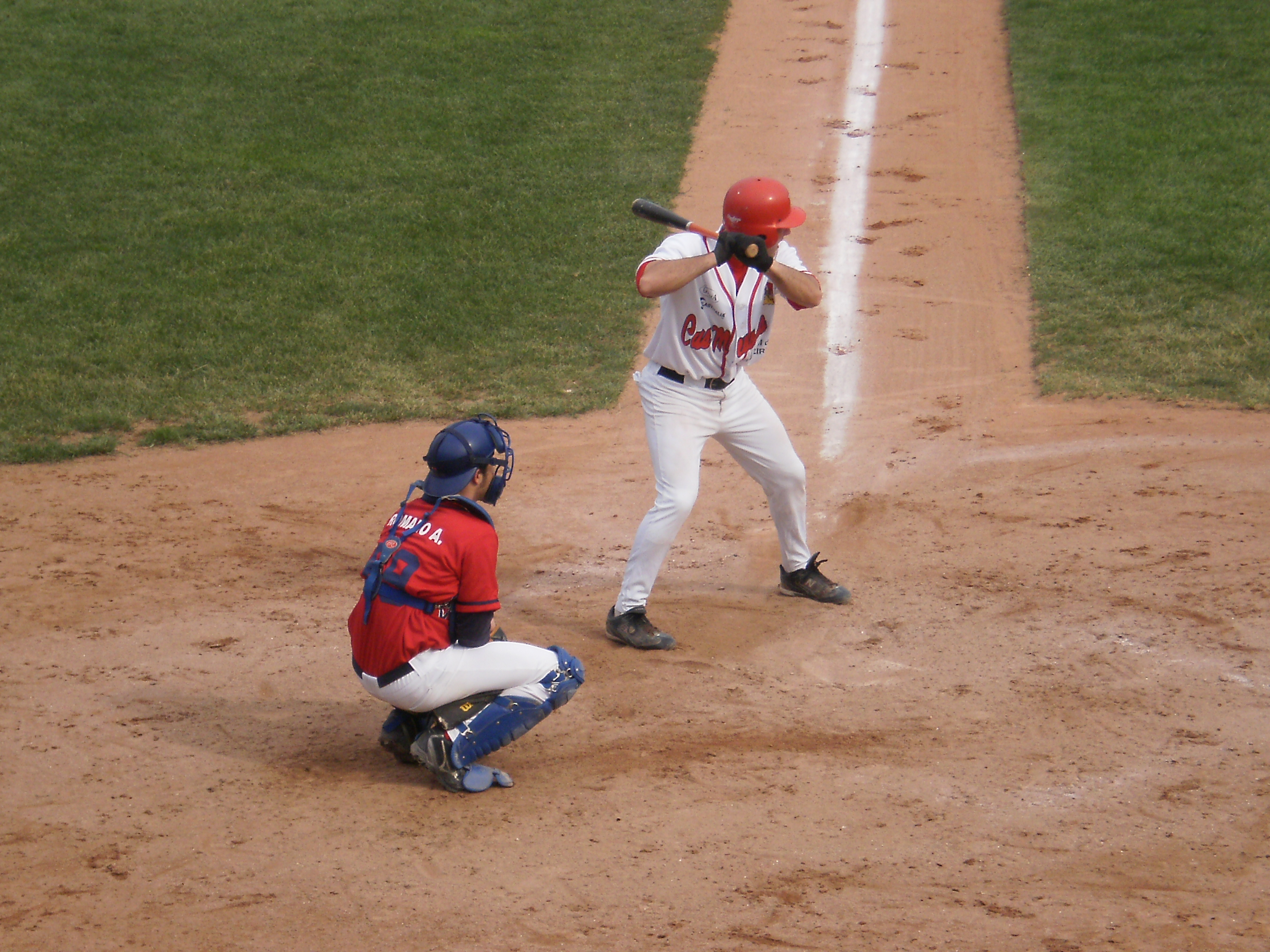 Two player of CUS Messina in Stadio Primo Nebiolo of Messina